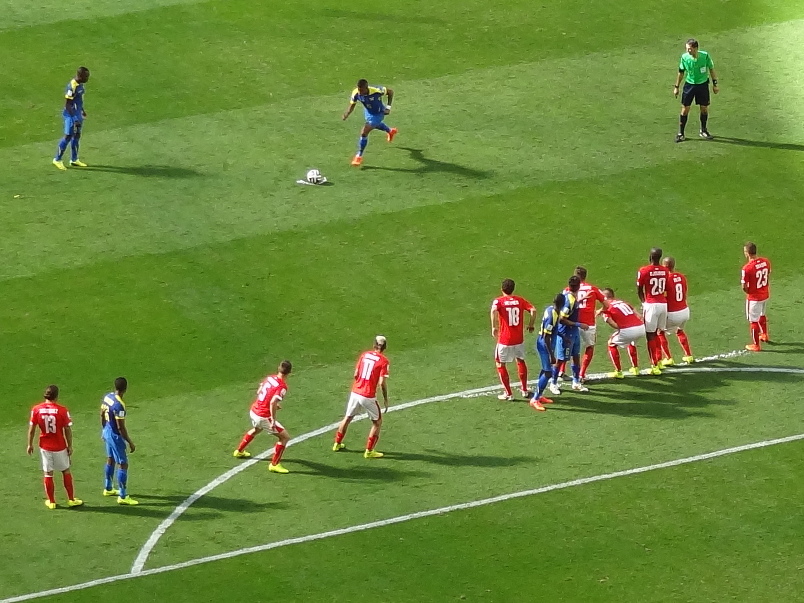 Switzerland and Ecuador match at the FIFA World Cup (2014-06-15), Estádio Nacional Mané Garrincha, Brasilia.